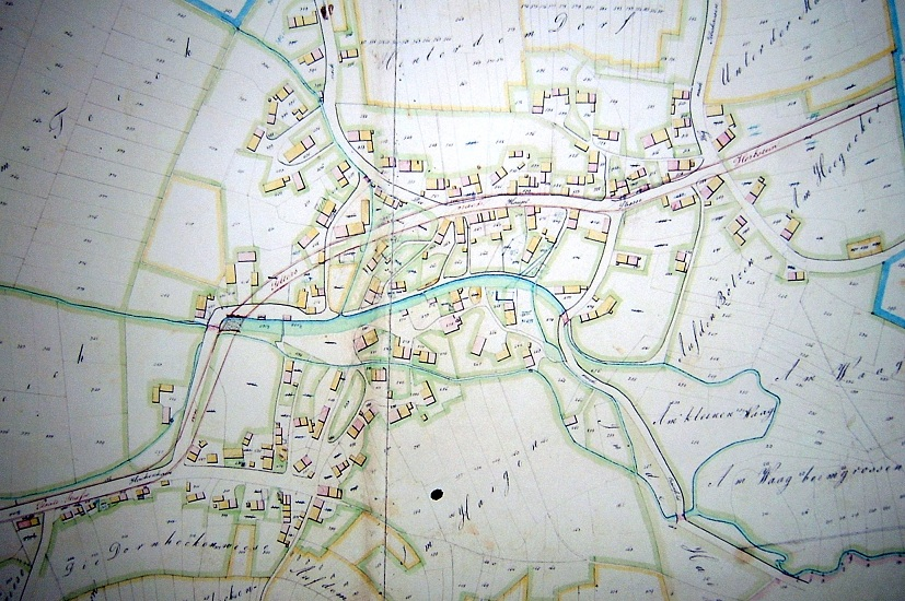 Parcel map of Grebenhain from 1832.